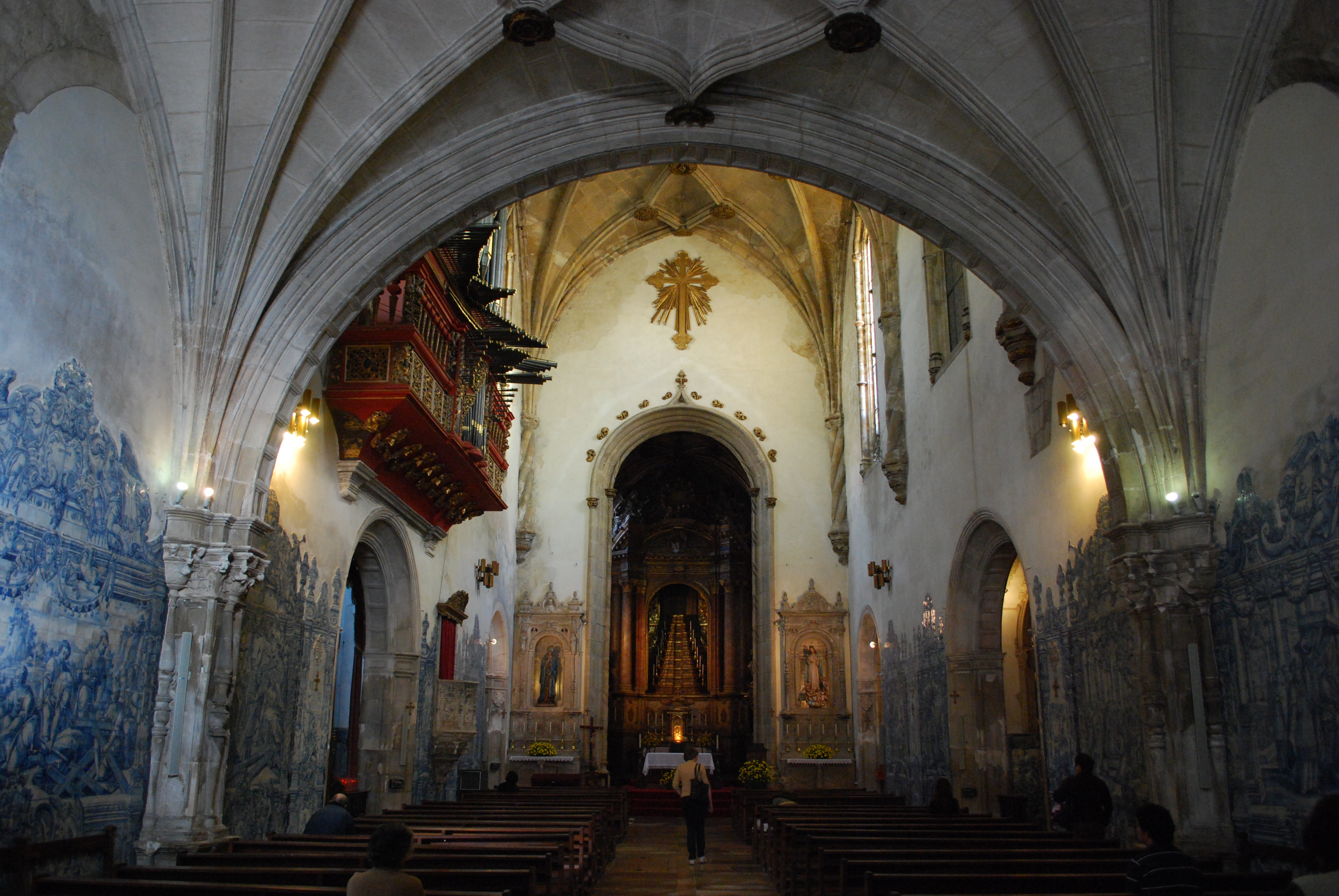 This file was uploaded for Wiki Loves Monuments in Portugal with the unique identifier 69813.